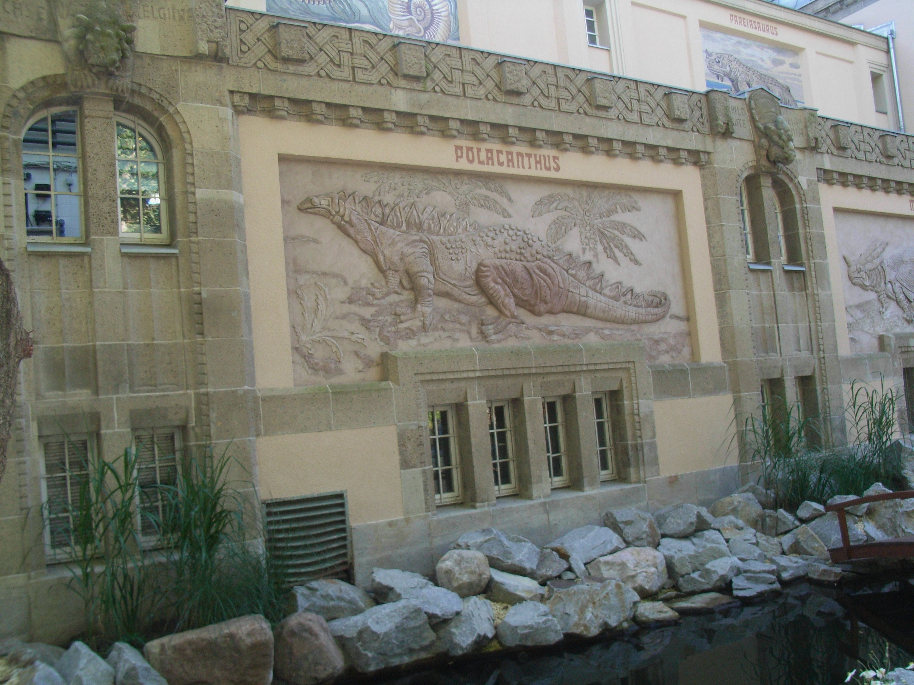 Heinrich Harder (1858 – 1935) relief of Polacanthus(an early armored, spiked, plant-eating ankylosaur from the early Cretaceous period) at the Berlin Aquarium. Heinrich Harder (2 June 1858 Putzar – 5 February 1935 Berlin) was a German artist and an art professor at the Prussian Academy of Arts in Berlin